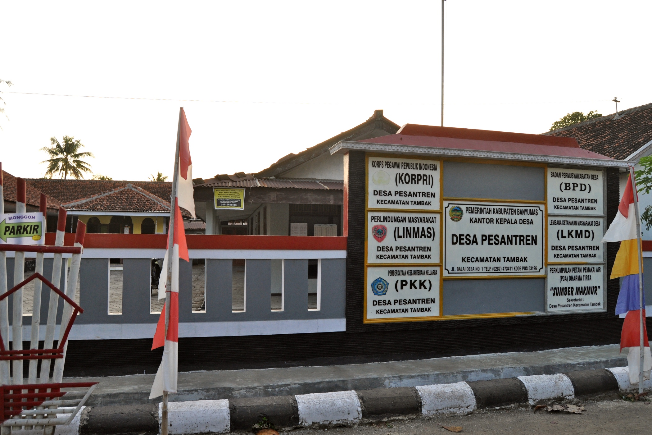 Pesantren Village office, Banyumas, Central Java.